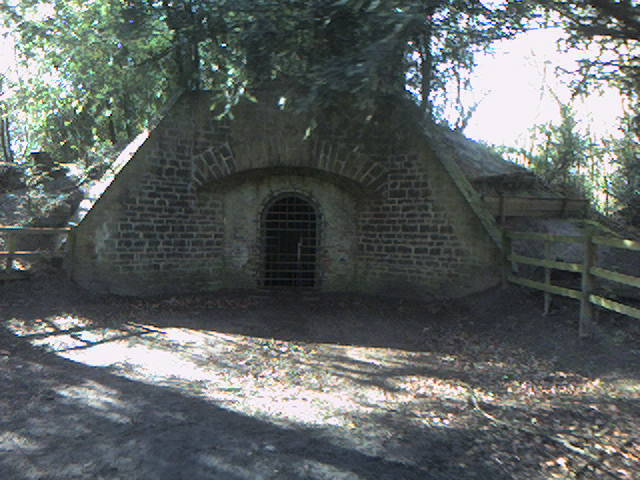 Rufford Ice House 1 Created by O.Tuck